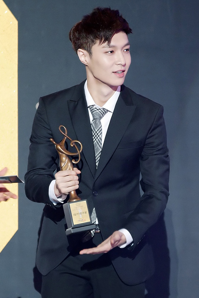 Lay Zhang at Seoul Music Awards on January 22, 2015.